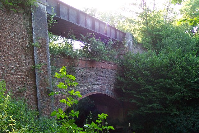 The Double Bridge over the River Arun, near to Rudgwick, West Sussex, Great Britain